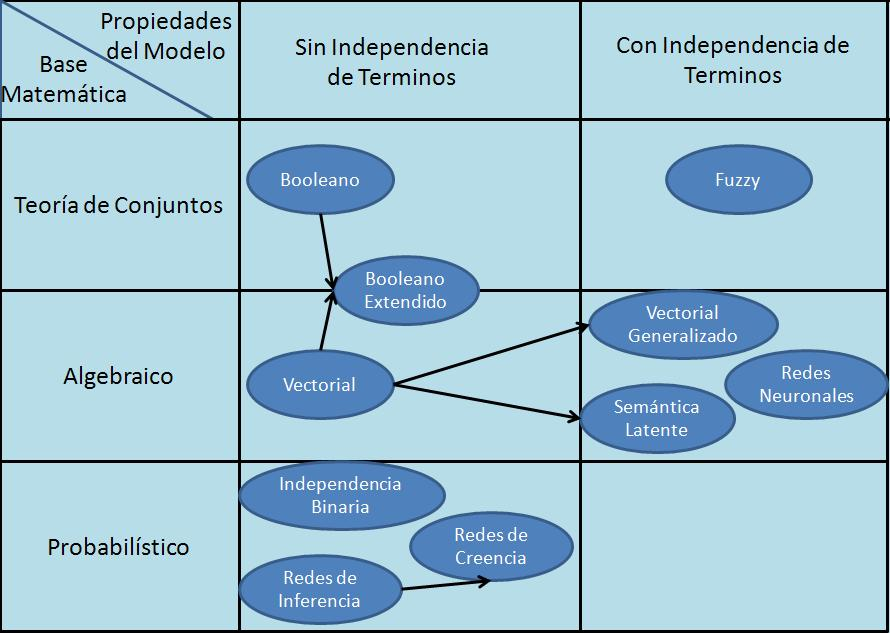 Modelos IR